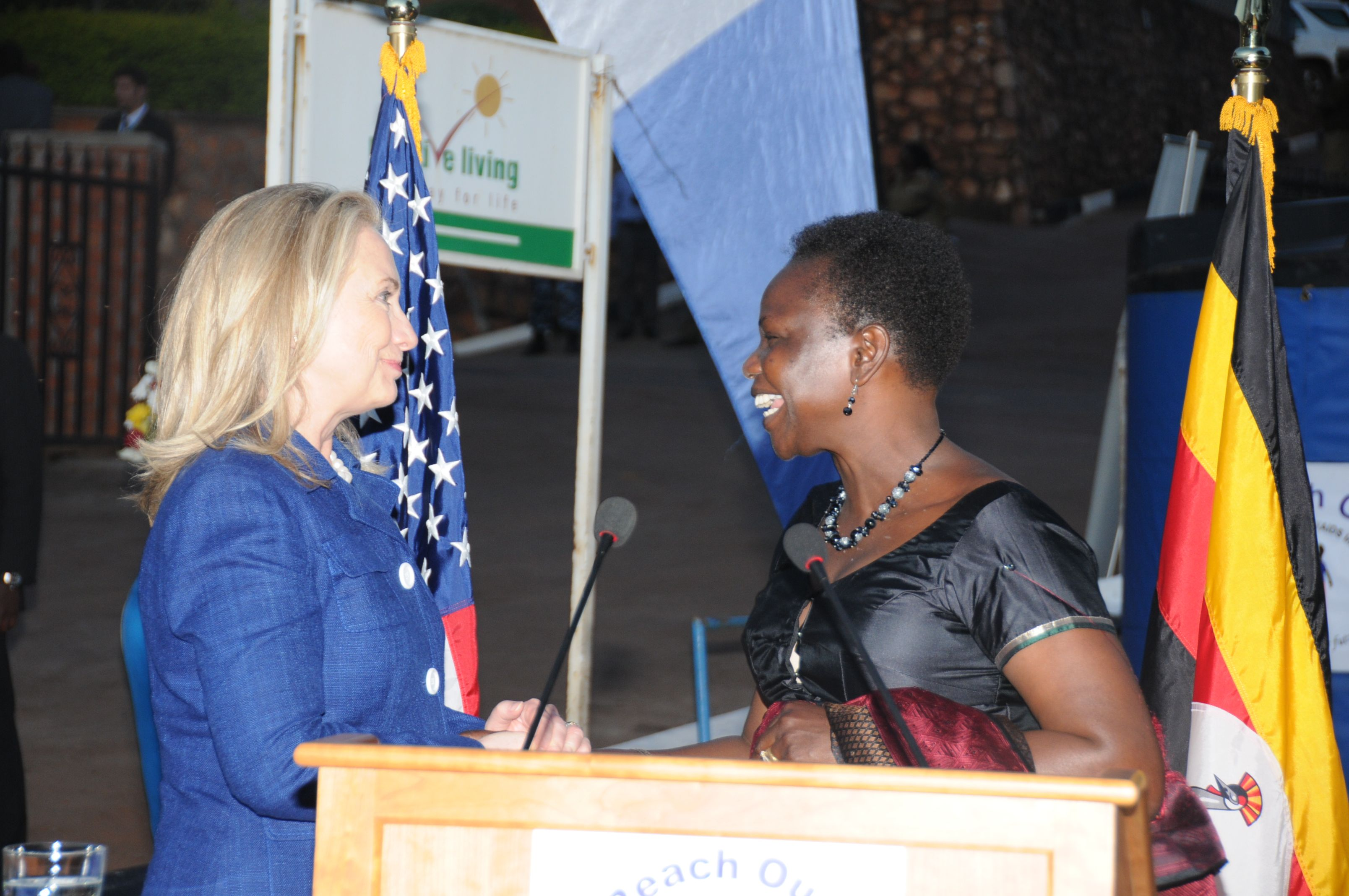 U.S. Secretary of State Hillary Rodham Clinton greets Ugandan Minister of Health Dr. Christine Ondoa at Reach Out Mbuya—a PEPFAR-supported faith-based organization and health clinic in Kampala, Uganda on August 3, 2012. [State Department photo/ Public Domain]